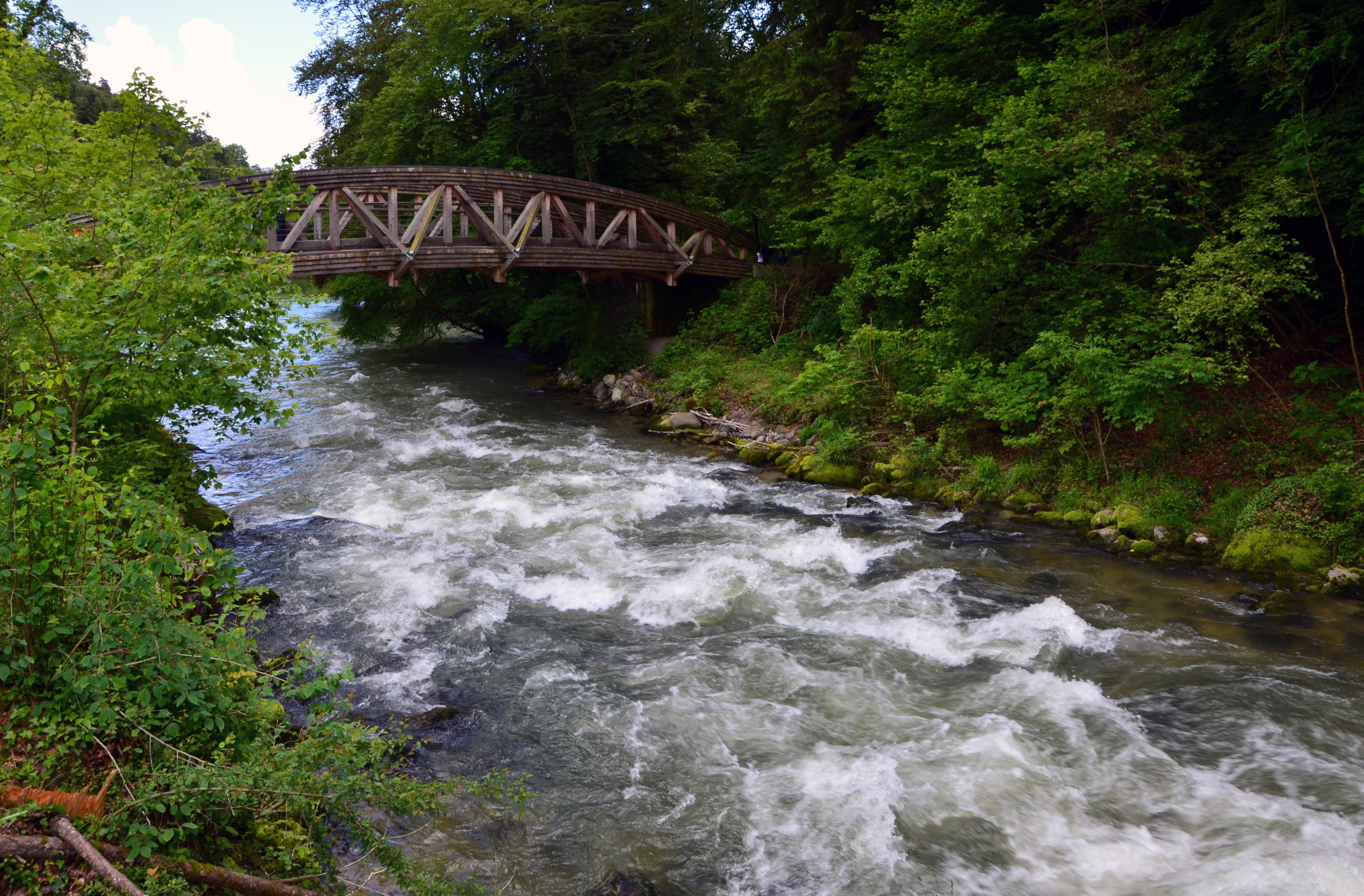 The Aubonne river crossing the Aubonne's valley's national arboretum (canton of Vaud, Switzerland).